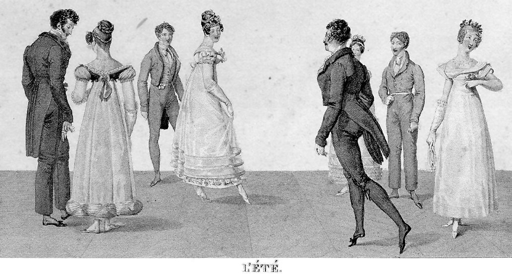 Illustration of the L'été ("summer") figure of the quadrille dance, a print engraved by Lebas (1818). The famous Pas d'été involves a woman slightly lifting an overskirt of her gown, as seen being done by the woman at center. For another illustration of a dance gown showing an overskirt being lifted for the Pas d'été, see Image:1823-Ball-Gown-Diaphanous-Overskirt.jpg .